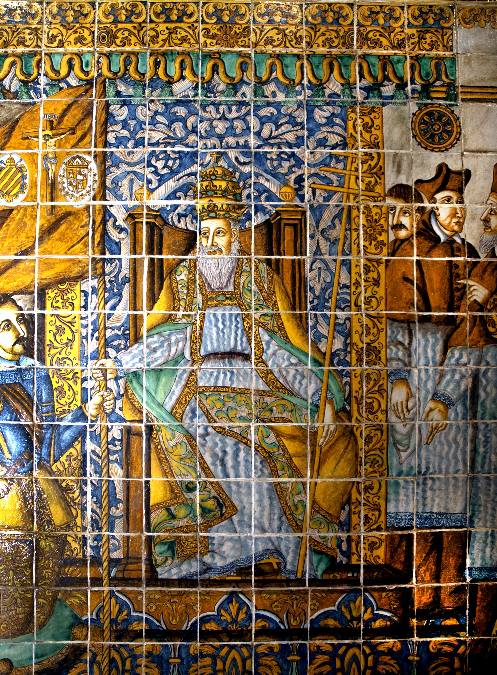 Capella del Roser (Chapel of the Rosary) in Valls, Catalonia, painting on ceramic tiles showing Pope Pius V handing the banner of the Holy League of 1571 to Don John of Austria (the historical naval banner measured 4 by 7 metres and weighed more than 200 kg).